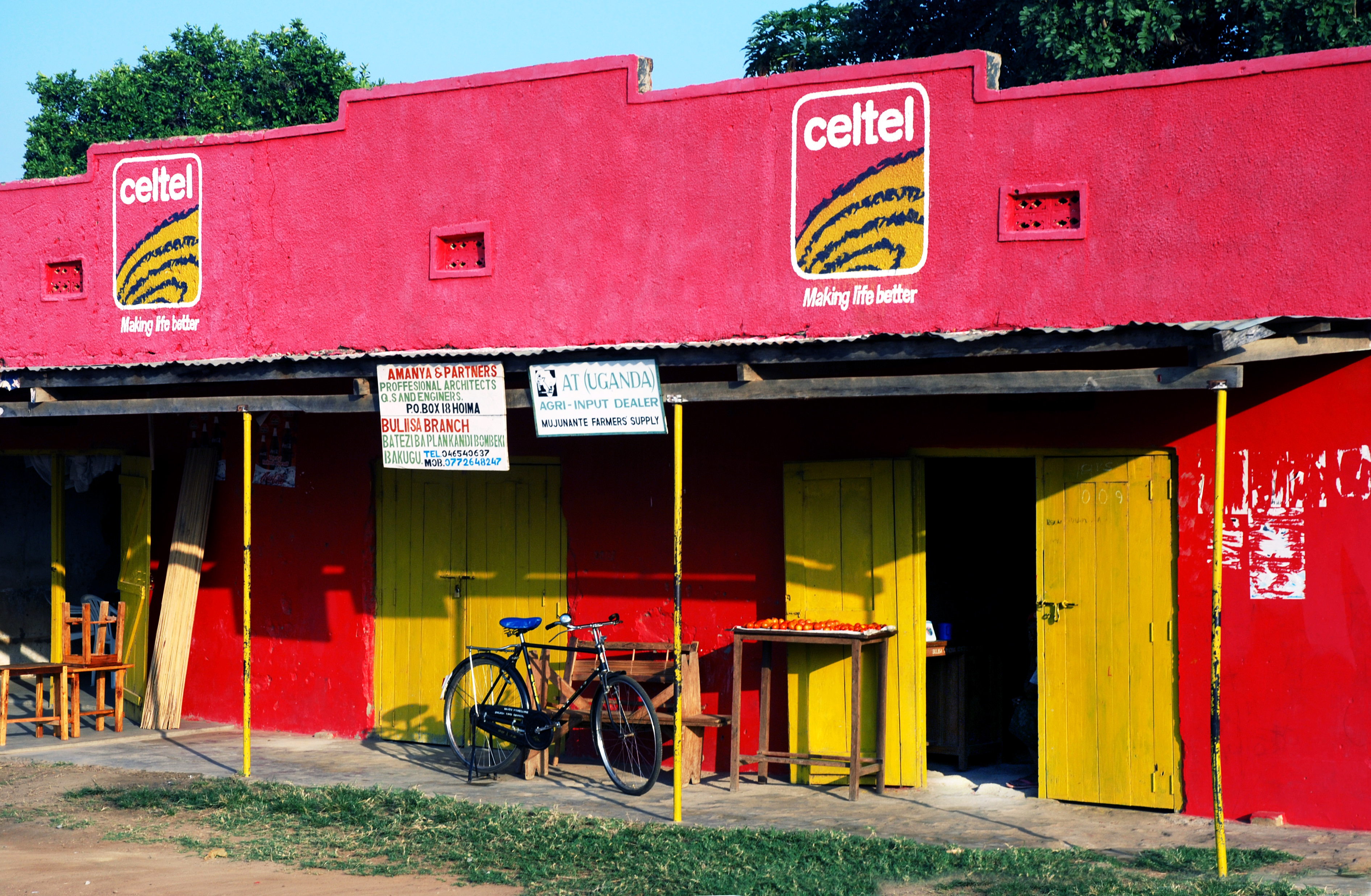 Celtel (and other mobile telephone operator) signs are ubiquitous in Uganda